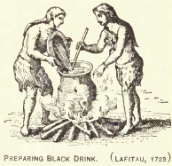 Eastern Woodland people making black drink in 1723.